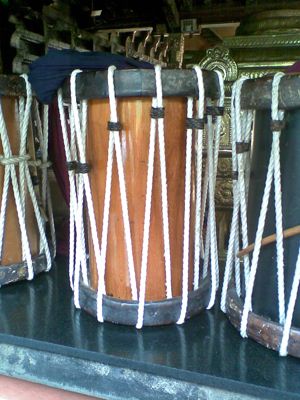 Chenda